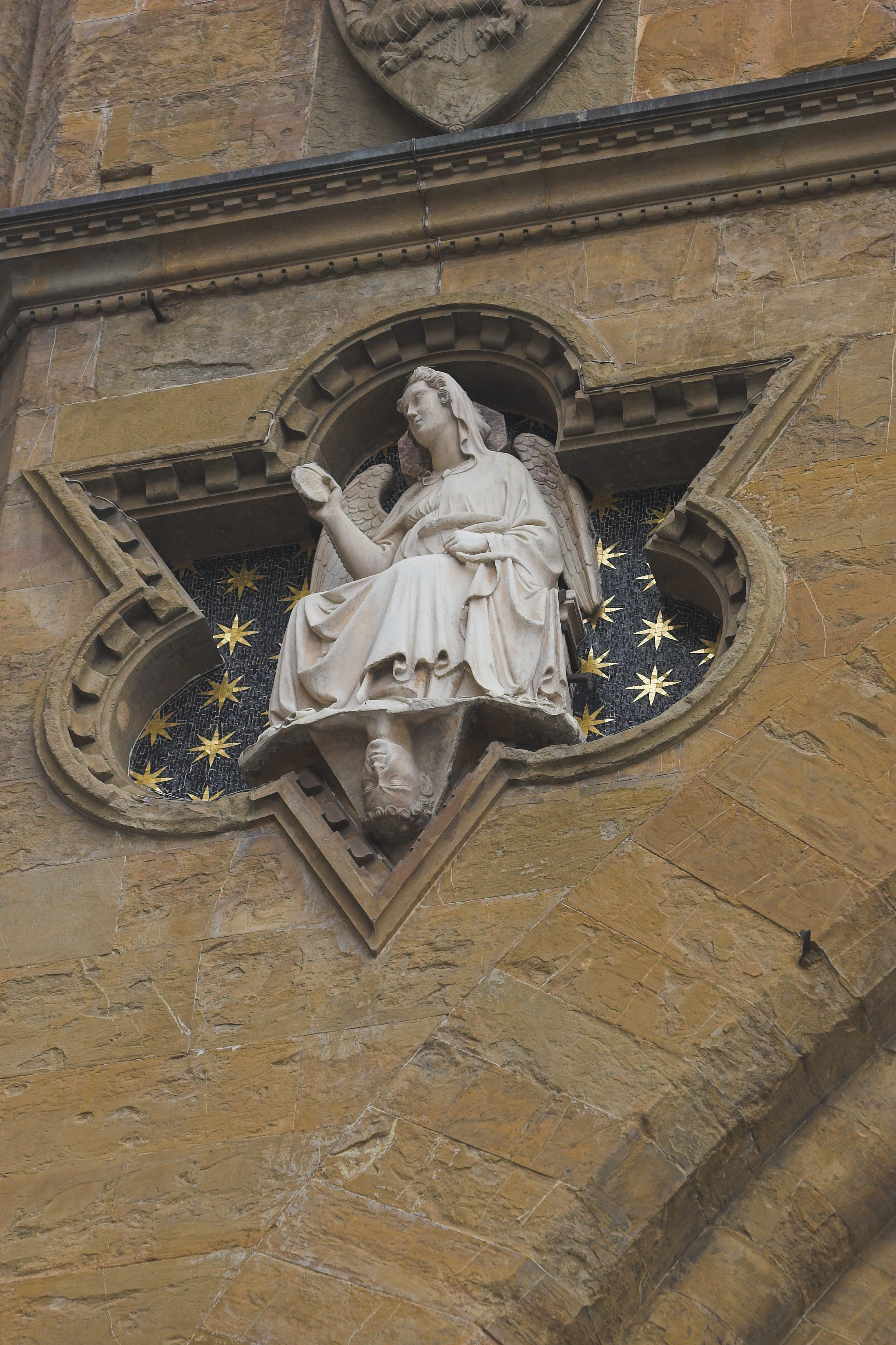 An image of Prudence, one of the four cardinal virtues, looking into her mirror. Photo by Thermos.